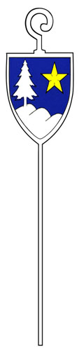 coat of arms of The abbay of Notre Dame des Neiges